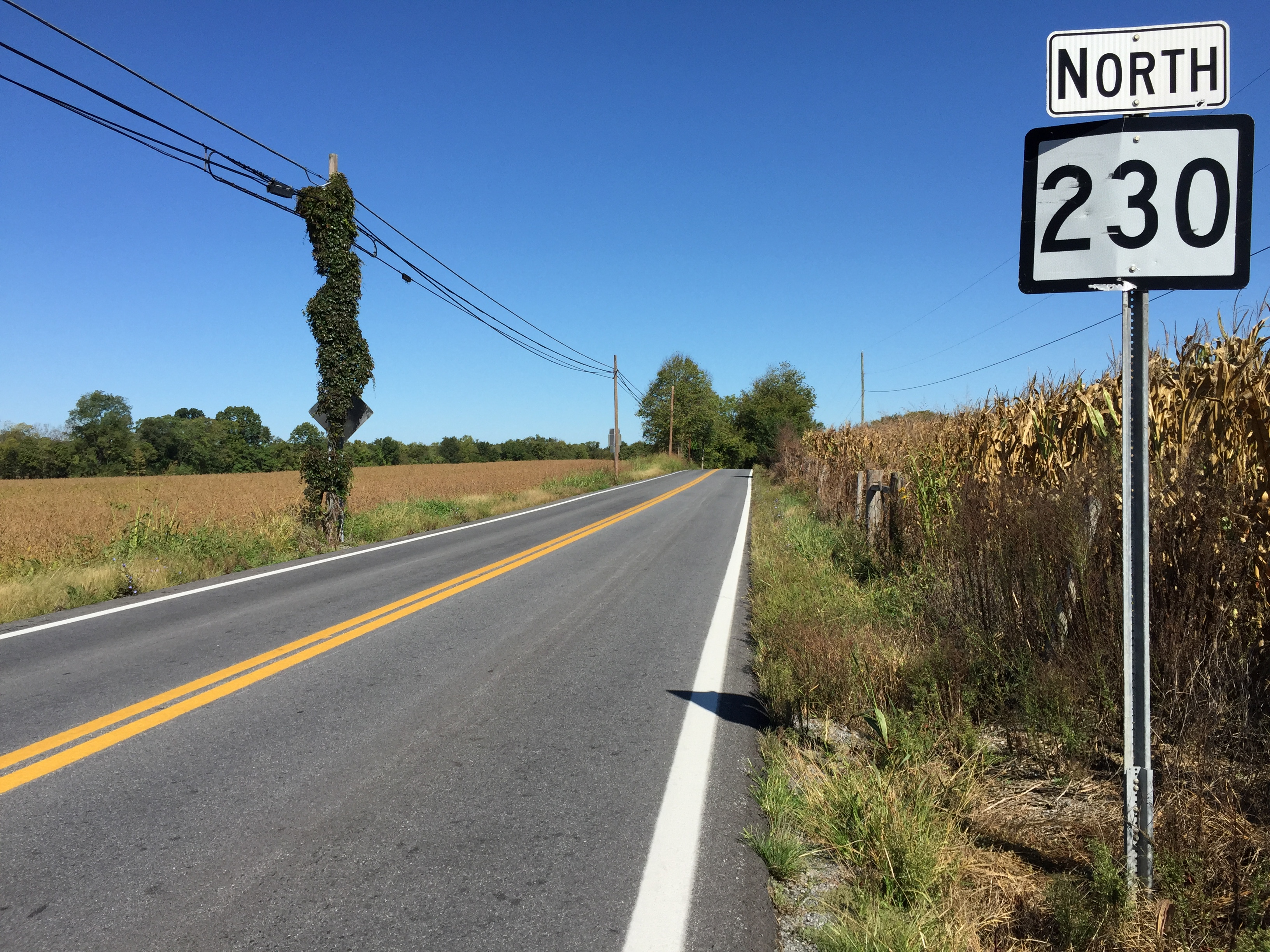 View north along West Virginia State Route 230 (Shepherdstown Pike) just north of Gardners Lane (Jefferson County Route 16/1) and Trough Road (Jefferson County Route 31/1) in Jefferson County, West Virginia